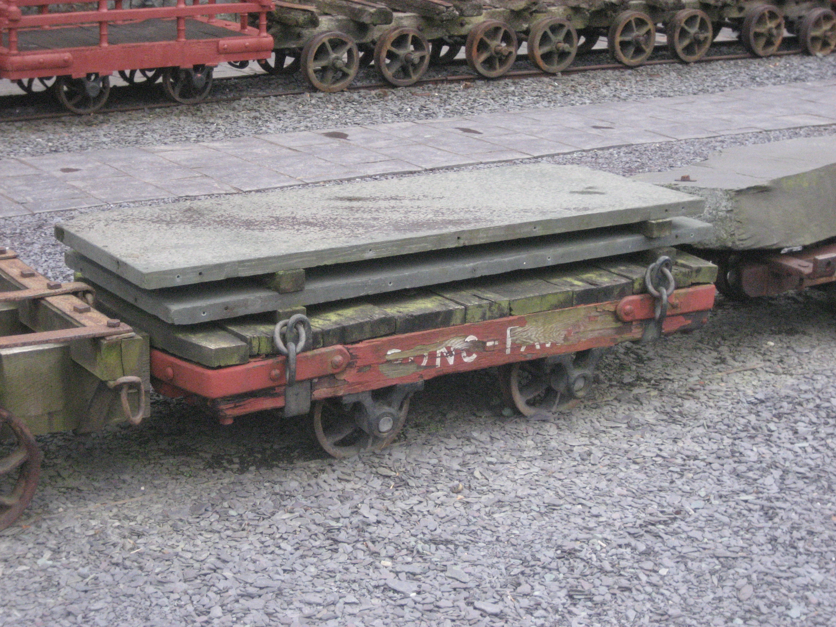 Ex Penrhyn Quarry slab wagon at the Slate Museum, Llanberis